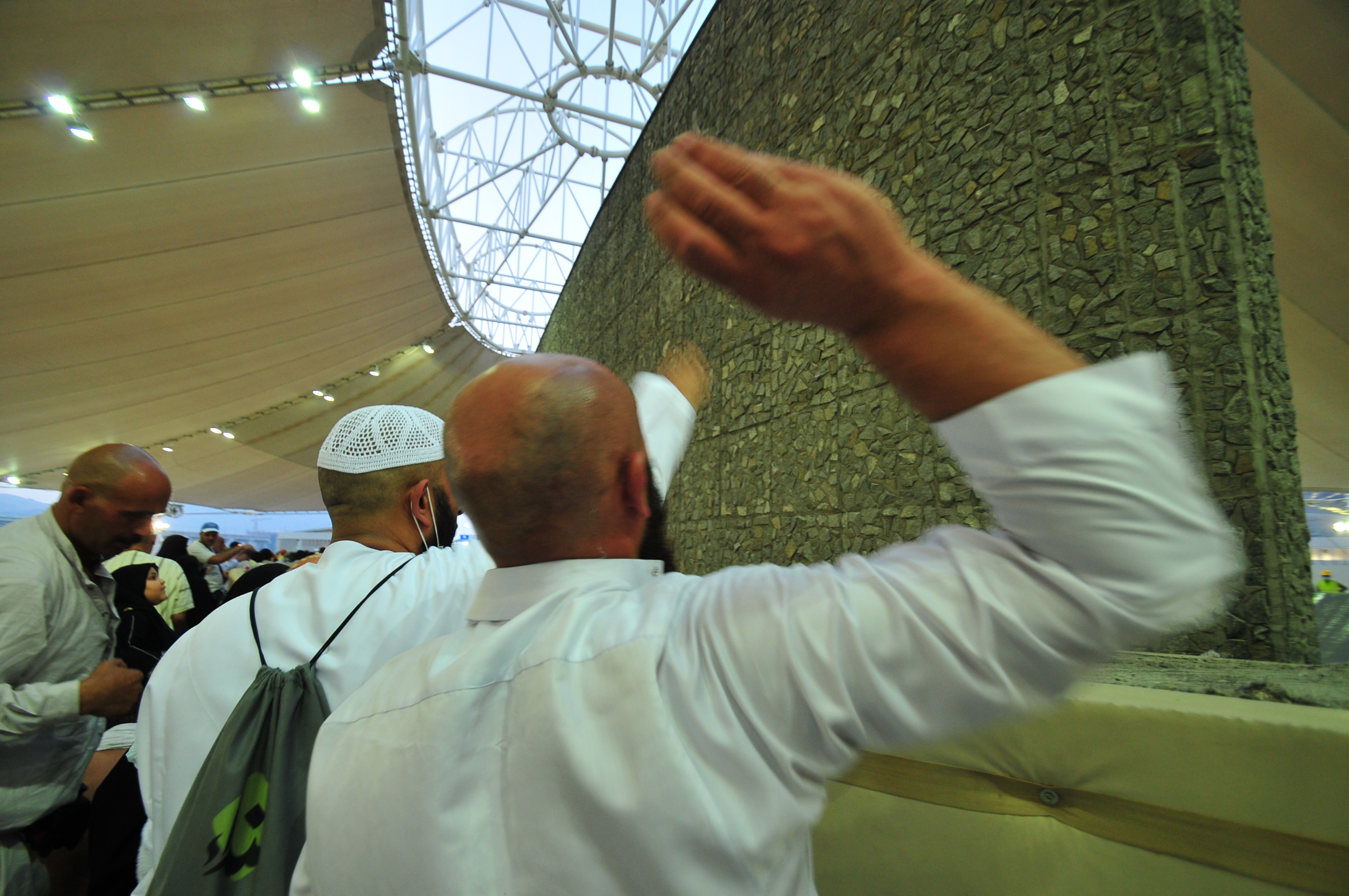 Photo by Fadi el Benni